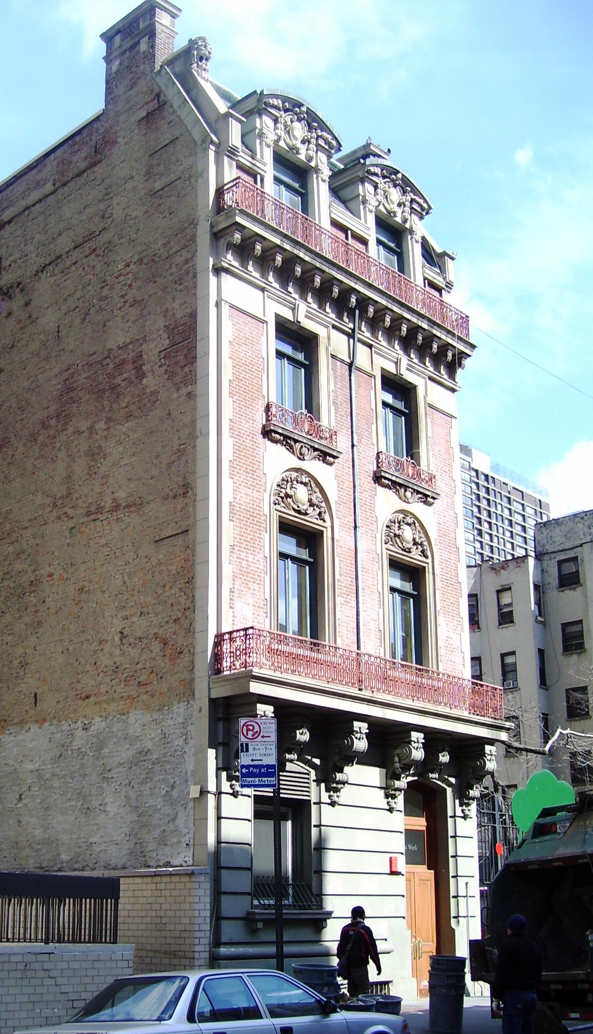 207 East 32nd Street between Lexington and Third Avenues in the Murray Hill neighborhood of Manhattan, New York City was built c.1910 in the Beaux-Arts style, and was originally the Tammany Central Association Clubhouse. It is now the studio of graphic designer Milton Glaser. (Source: AIA Guide to NYC (4th ed.))